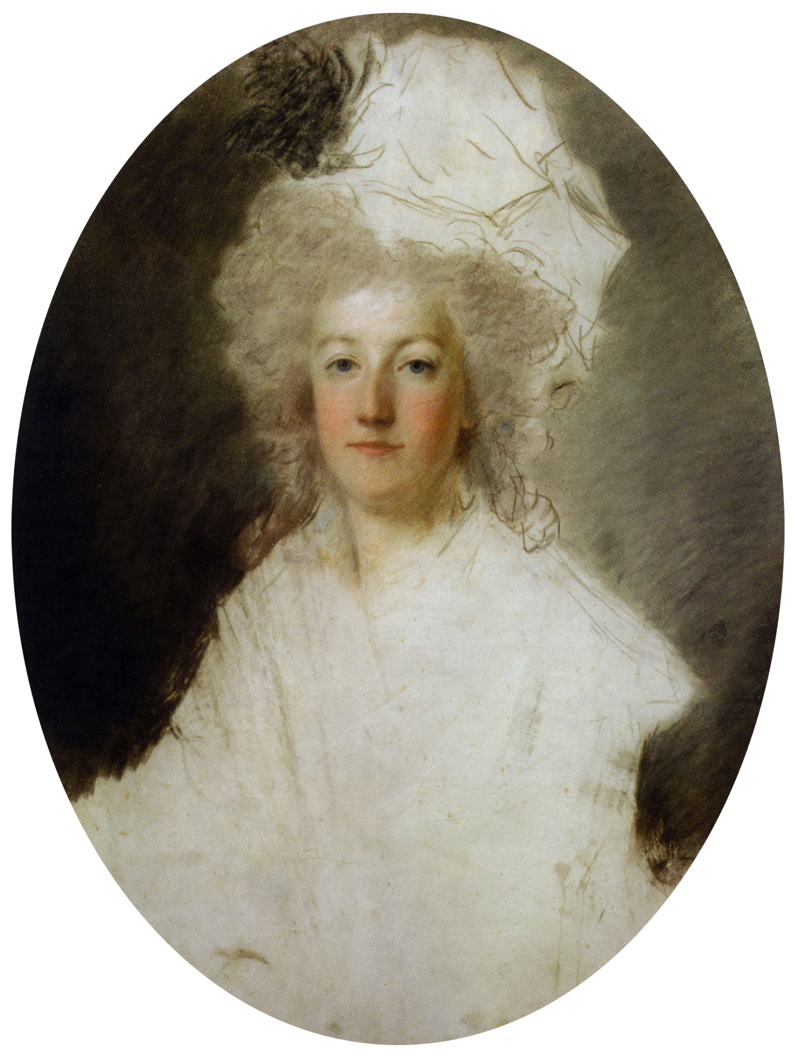 This painting was made at the Tuileries Palace; it was left unfinished. A blow, from a pike, by a revolutionary is visible on the lower part of the work.